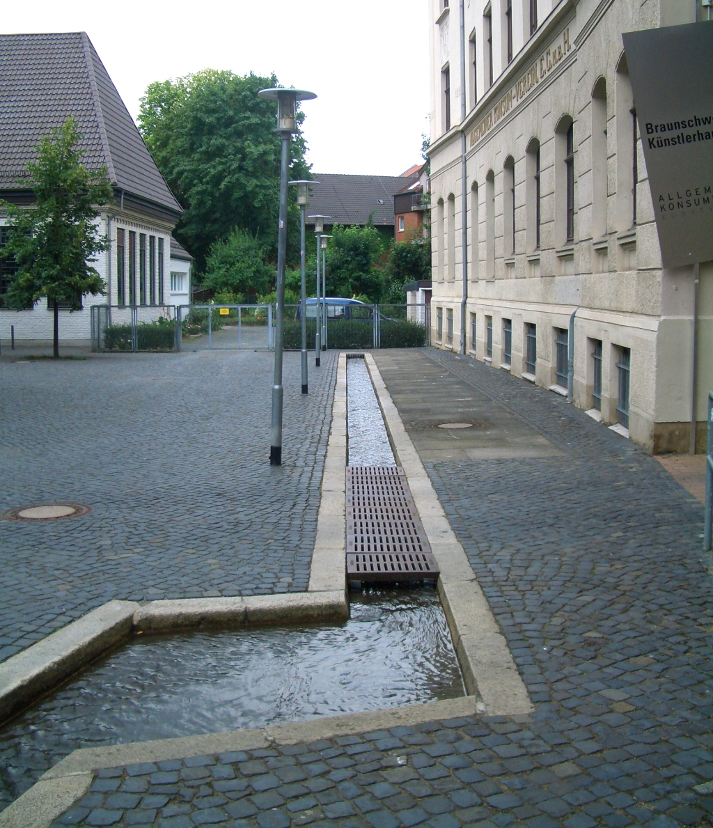 View near "Konsumverein" in Braunschweig.